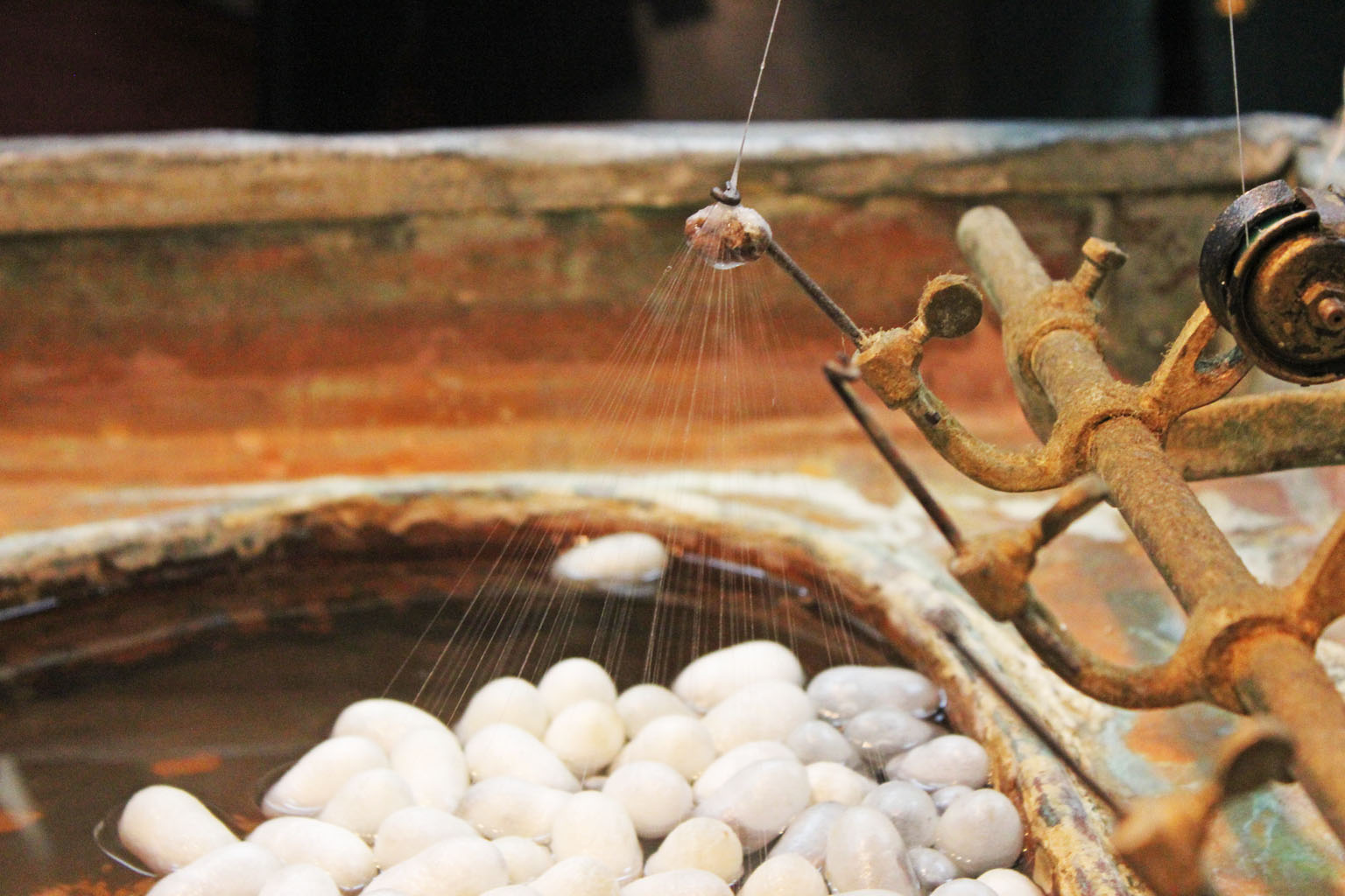 Silk reeling, Göreme (Bazaar 54). Photograph 2.